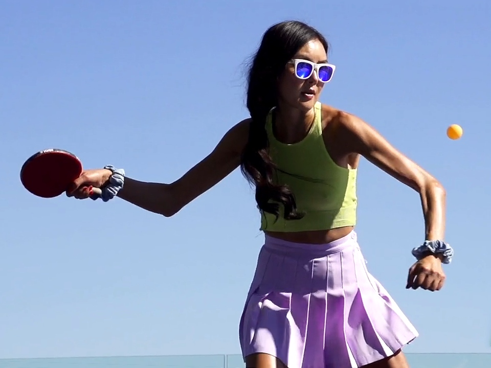 Korean professional model and table tennis player Soo Yeon Lee